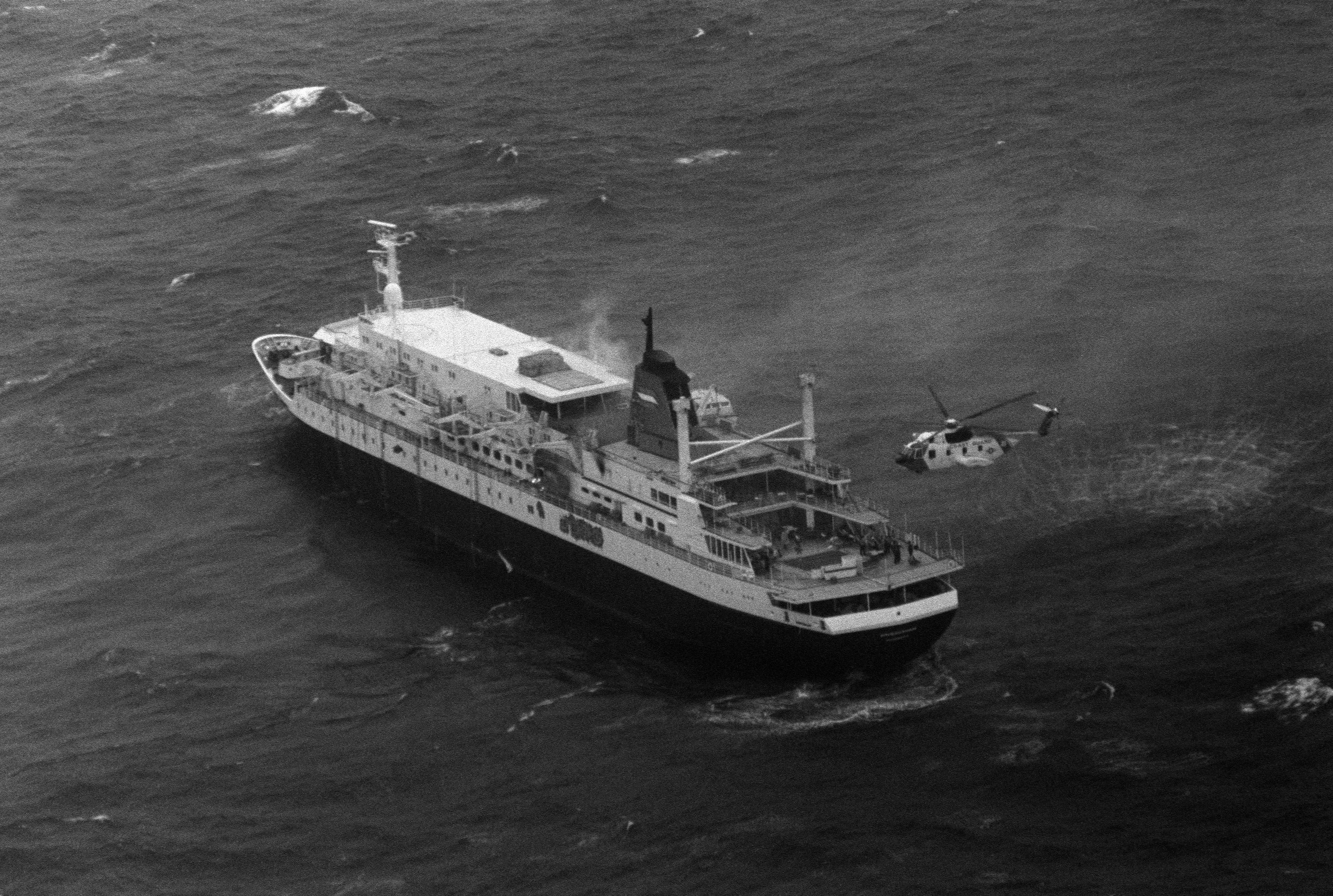 A U.S. Coast Guard Sikorsky HH-3F Pelican helicopter hovers near the stern of the Holland-America liner MS Prinsendam (ca. 520 passengers and crew) in the Gulf of Alaska. The liner was sailing through the Gulf of Alaska, approximately 190 km south of Yakutat, Alaska, at midnight on 4 October 1980, when a fire broke out in the engine room. United States Coast Guard and Canadian Coast Guard helicopters and the cutters USCGC Boutwell (WHEC-719), USCGC Mellon (WHEC-717), and USCGC Woodrush (WLB-407) responded in concert with other vessels in the area. The passenger vessel later capsized and sank.